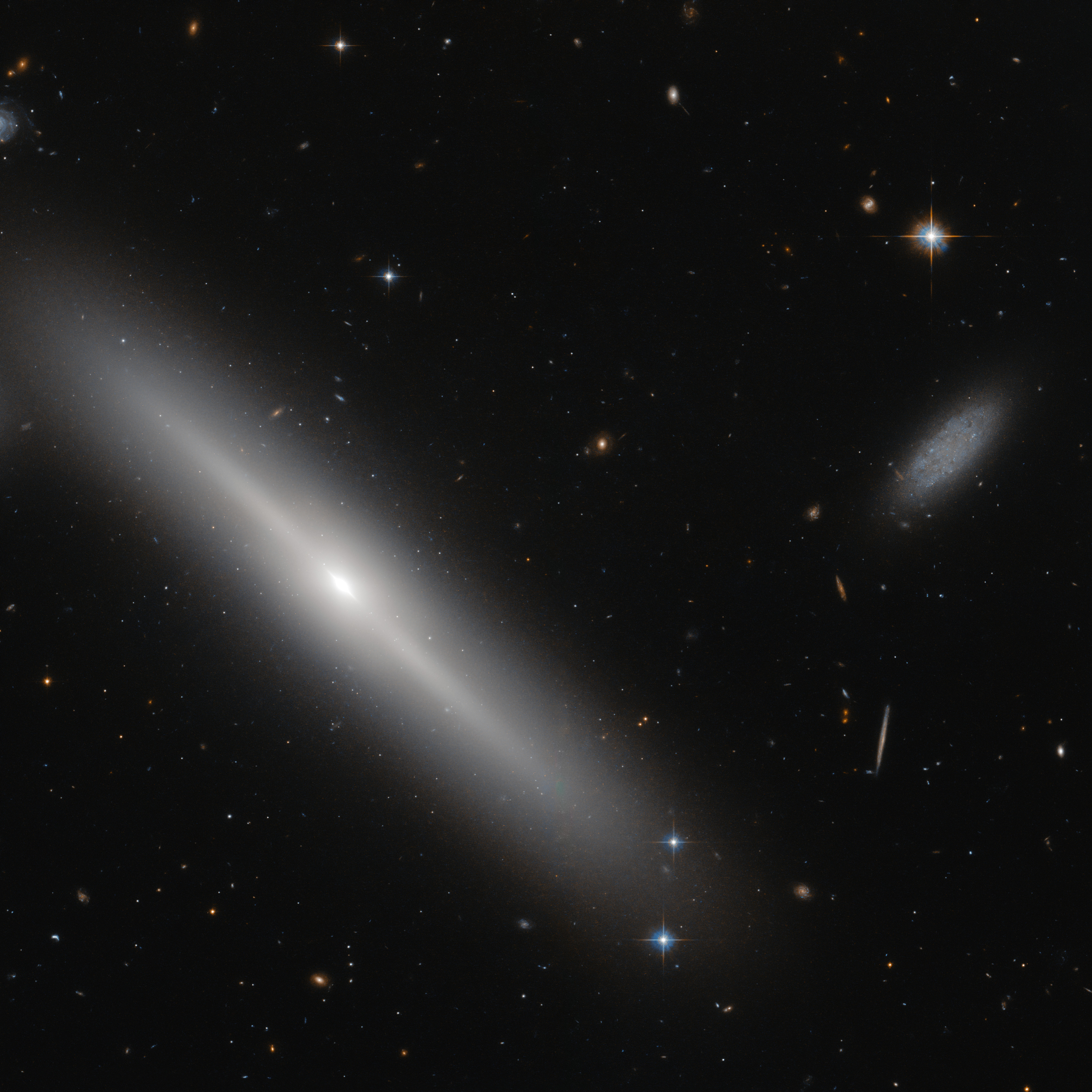 This NASA/ESA Hubble Space Telescope image shows star clusters encircling a galaxy, like bees buzzing around a hive. The hive in question the an edge-on lenticular galaxy NGC 5308, located just under 100 million light-years away in the constellation of Ursa Major (The Great Bear). Members of a galaxy type that lies somewhere between an elliptical and a spiral galaxy, lenticular galaxies such as NGC 5308 are disc galaxies that have used up, or lost, the majority of their gas and dust. As a result, they experience very little ongoing star formation and consist mainly of old and aging stars. On 9 October 1996, one of NGC 5308’s aging stars met a dramatic demise, exploding as a spectacular Type la supernova. Lenticular galaxies are often orbited by gravitationally bound collections of hundreds of thousands of older stars. Called globular clusters, these dense collections of stars form a delicate halo as they orbit around the main body of NGC 5308, appearing as bright dots on the dark sky. The dim, irregular galaxy to the right of NGC 5308 is known, rather prosaically, as SDSS J134646.18+605911.9